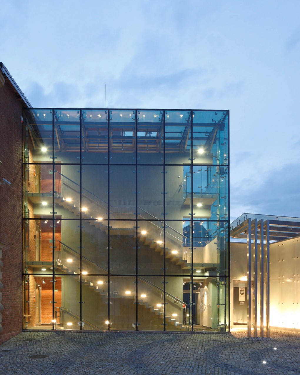 A newly designed building of the City Museum in Żory.